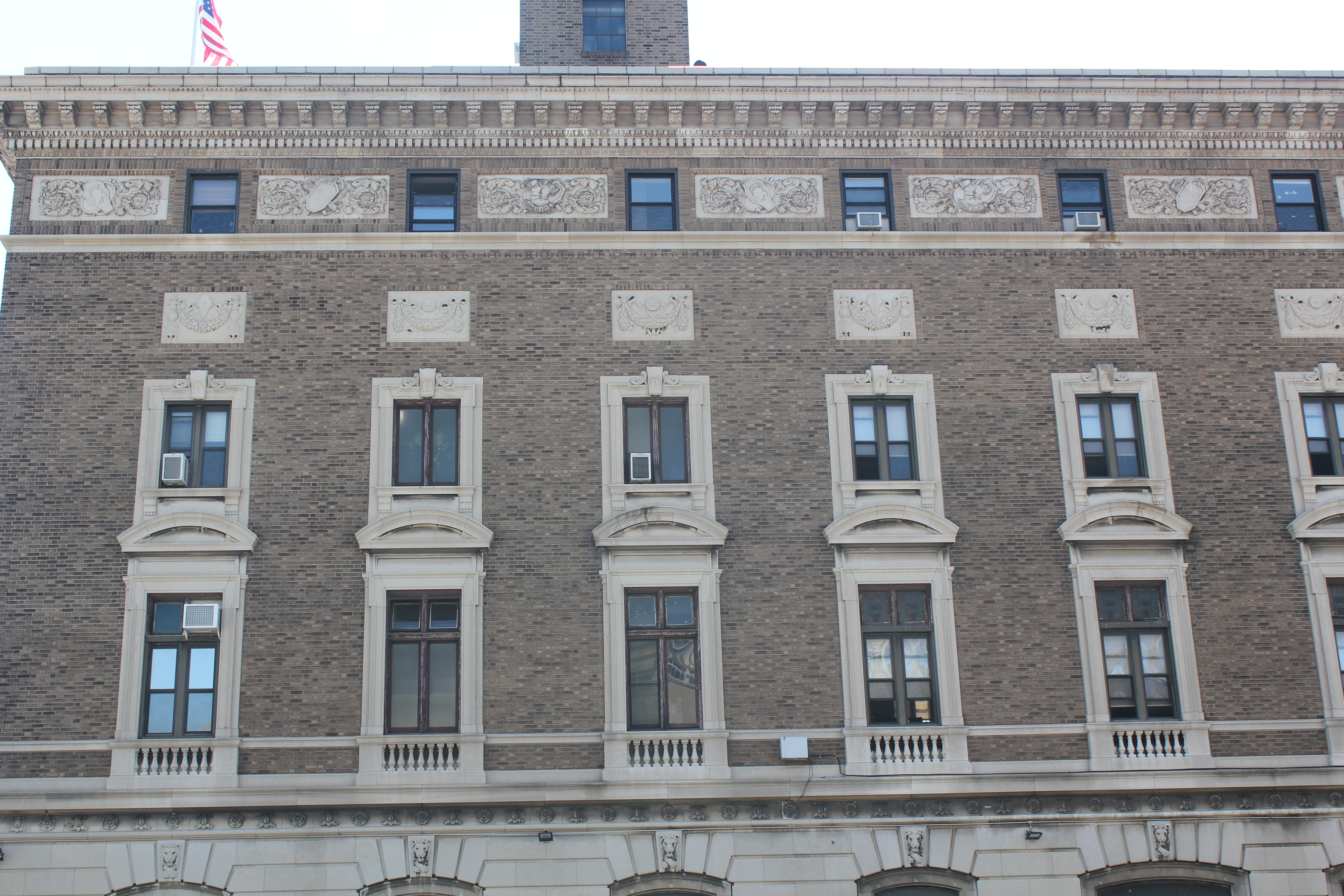 Benevolent and Protective Order of Elks, Lodge Number 878, Elmhurst, Queens, NY in July 2020